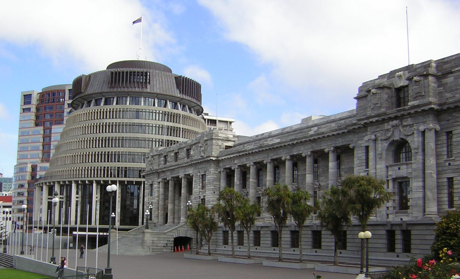 New Zealand's Parliament House (middle and right) and the Beehive (rear left) in Wellington.